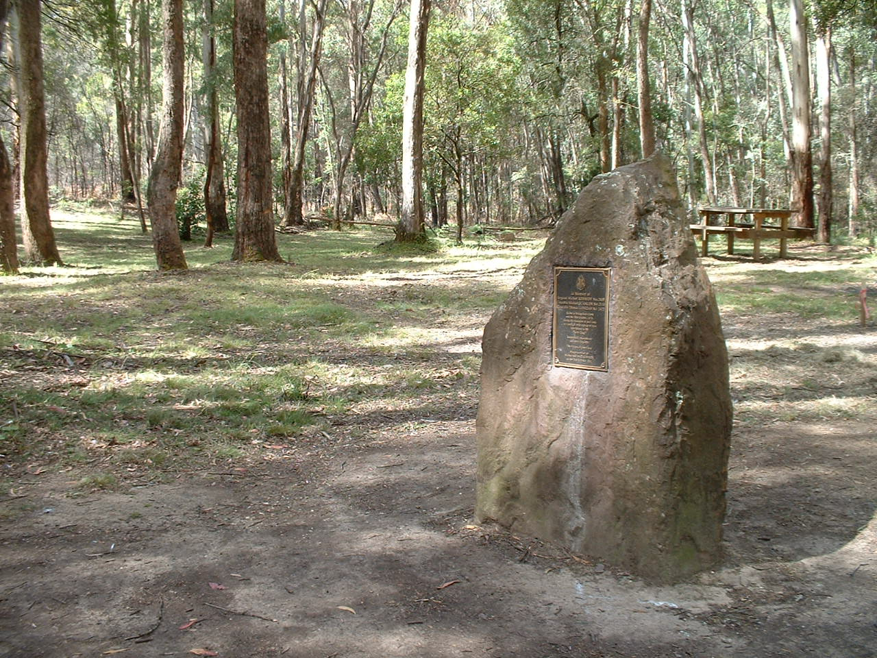 The memorial at Stringybark Creek, Victoria, Australia. This was the site of the murder of three policemen by bushranger Ned Kelly, on October 26, 1878.